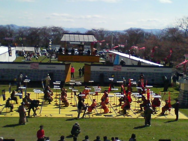 Description Ningen (Human) Shogi (人間将棋) at Tendo City, Yamagata Prefecture, on 22 April 2006 Author Tamago915 11:56, 8 May 2006 (UTC)